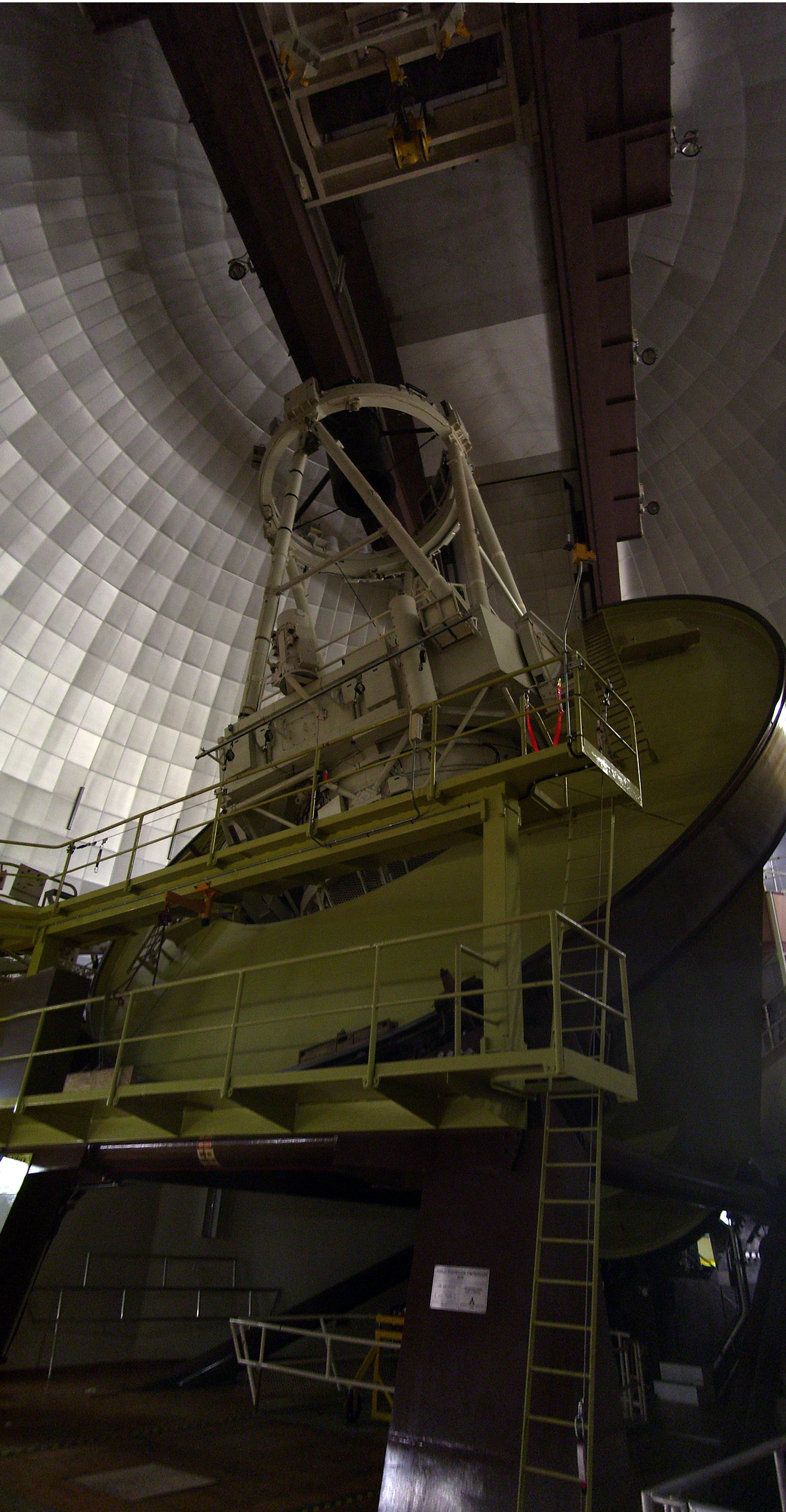 Anglo-Australian Telescope as seen from the visitor's deck.